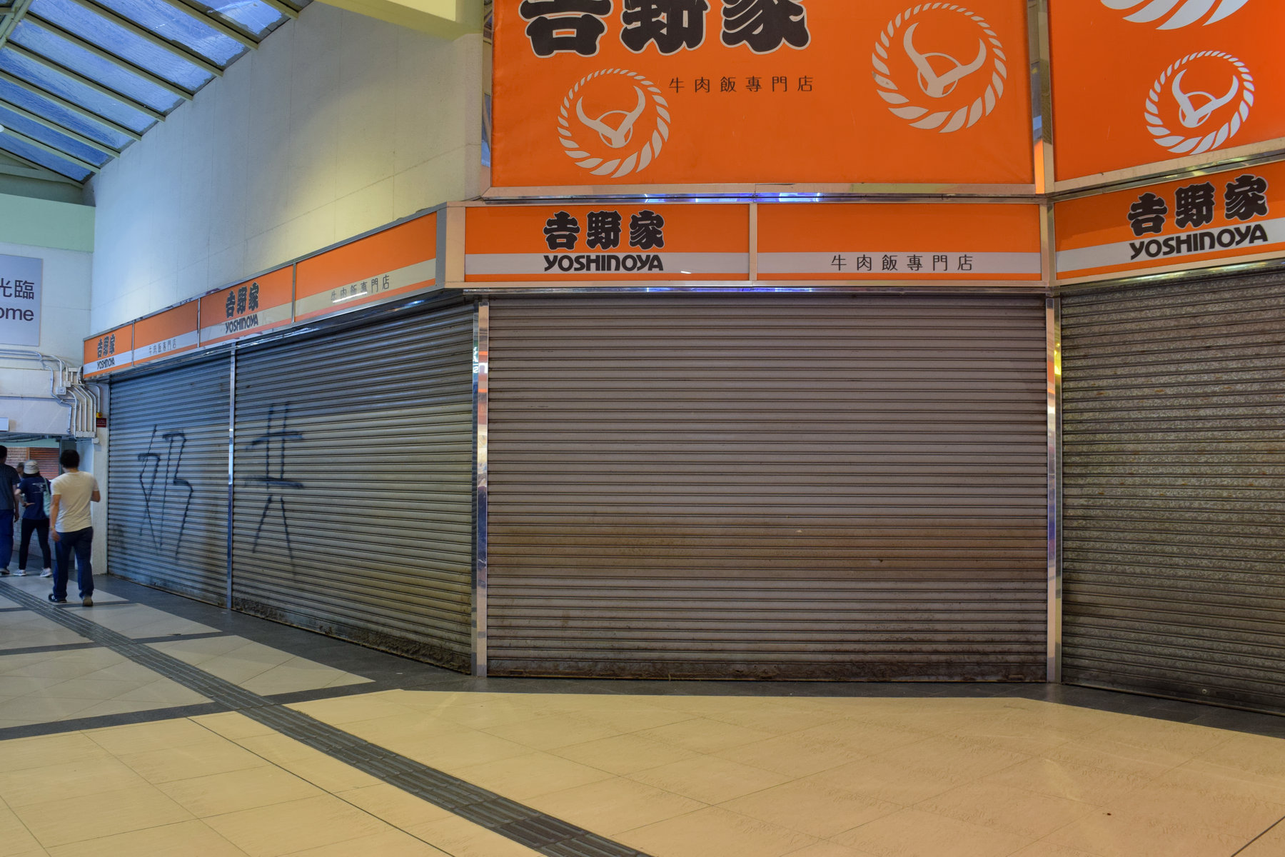 Metal gate of Yoshinoya Lek Yuen Plaza store had been sprayed "奶共" (allied with CCP) after it had been closed early.